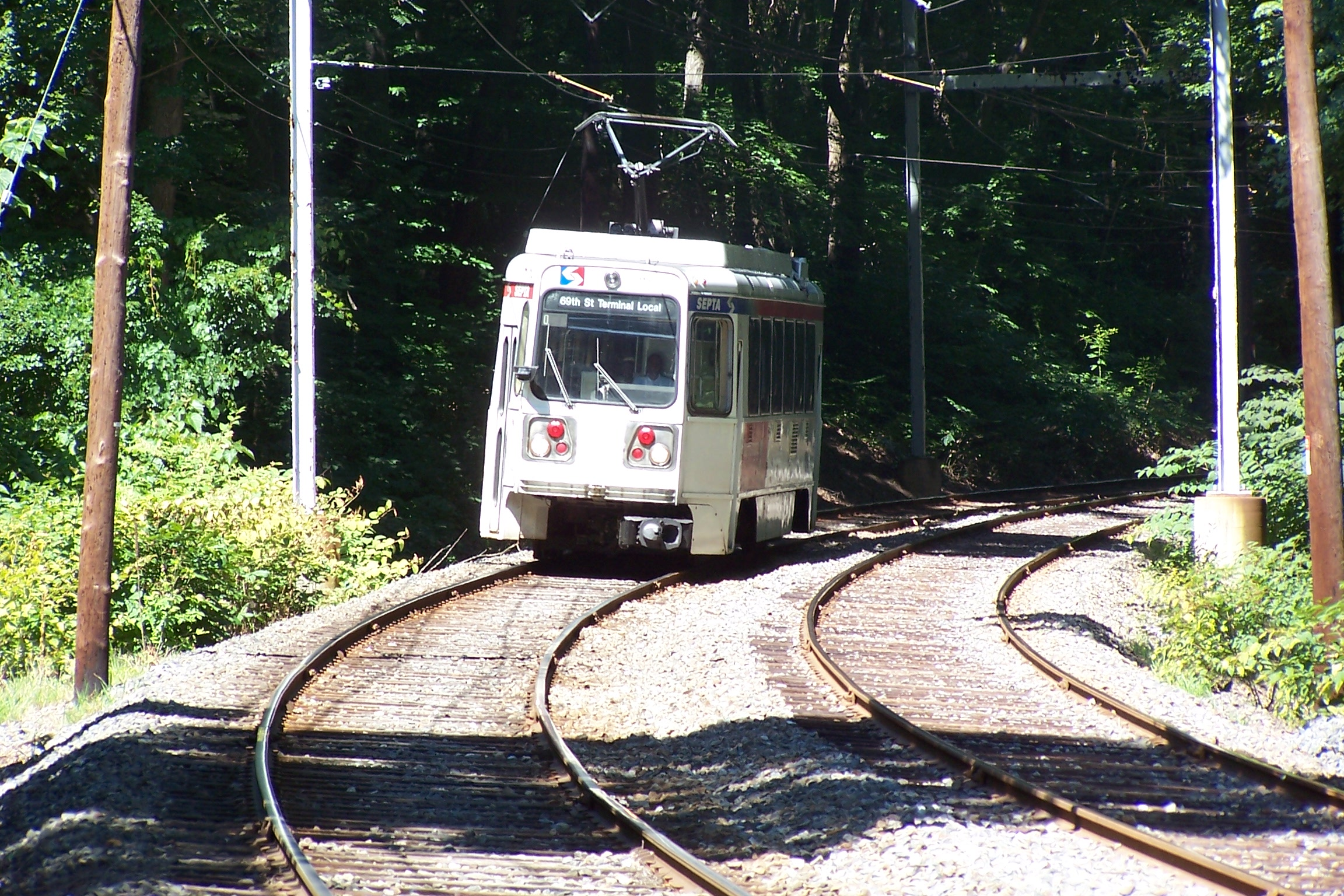 SEPTA Route 101 outside Media, Pa heading towards the 69th Street Terminal